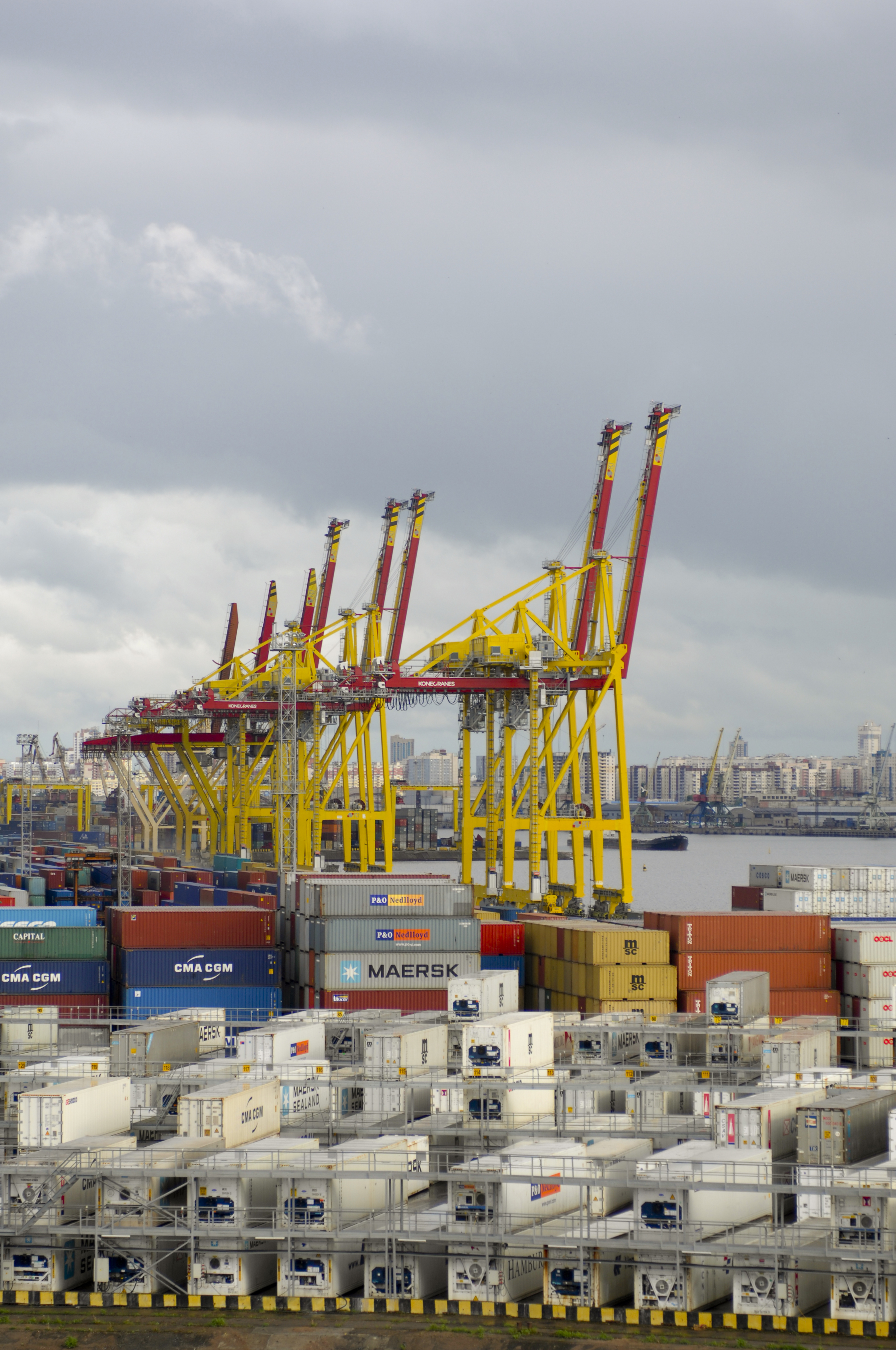 Port crane in Saint Petersburg, Russia.